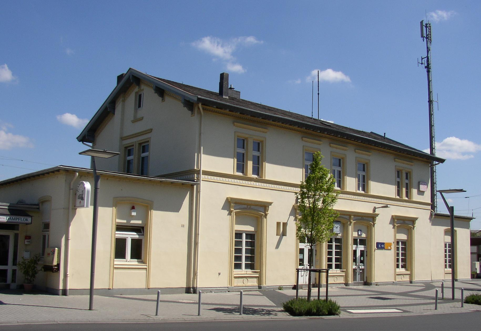 Railway station at Sinzig in Rhineland-Palatinate, Germany